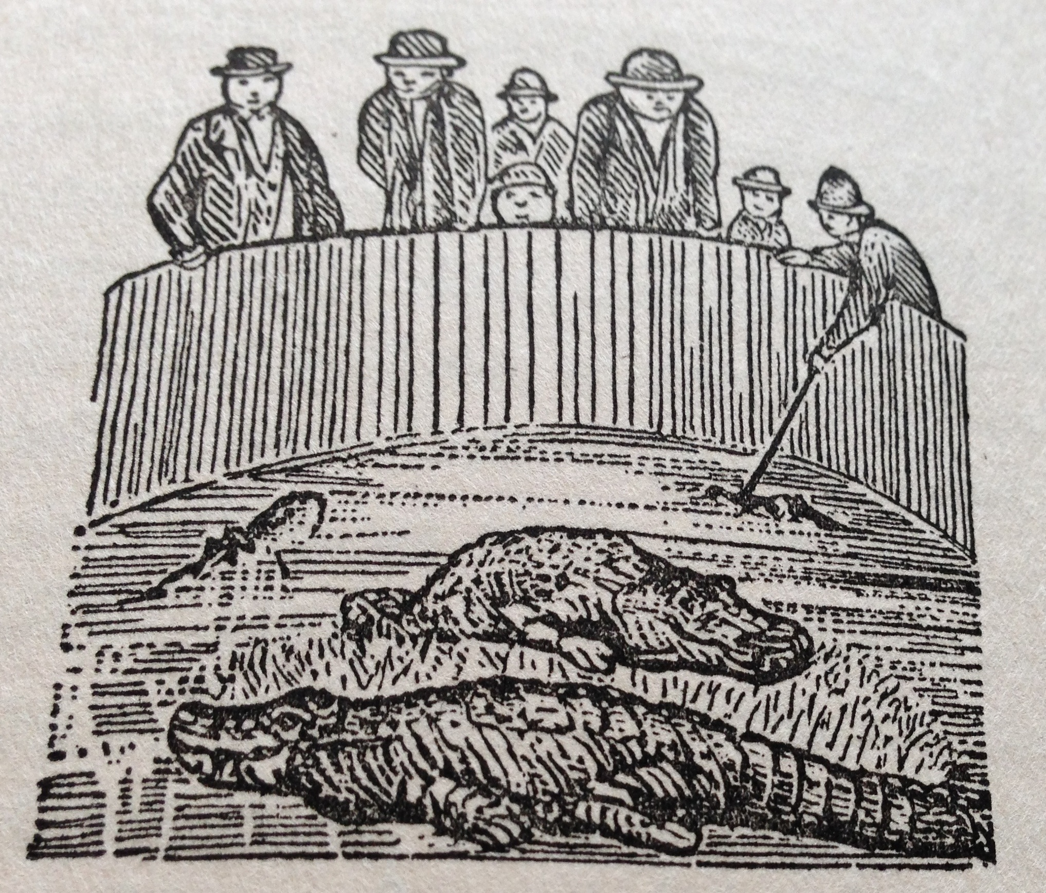 Alligator pit. A cartoon drawn by Lafcadio Hearn and published in the New Orleans Daily Item, 1880.